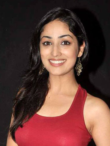 Yami gautam audio release vicky donor